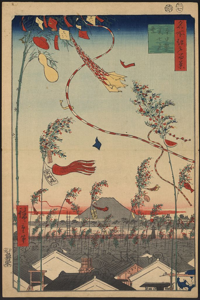 Andō, Hiroshige,, 1797-1858,, artist. Shichūhan'ei tanabata matsuri [1857] 1 print : woodcut, color ; 36.3 x 24.1 cm. Title Translation: The city flourishing, Tanabata festival. Notes: Title and other descriptive information compiled by Nichibunken-sponsored Edo print specialists in 2005-06. From the series: Meisho edo hyakkei : 100 famous views of Edo. Format: vertical Oban Nishikie. Illus. in album: Gajō icchō, p. 8. Restricted access; material extremely fragile; please use online digital image. Print shows bamboo decorated with paper streamers and cutouts above the rooftops of the city during the Tanabata festival. Forms part of: Visual materials from Donald D. Walker collection. Forms part of: Japanese prints and drawings (Library of Congress). Subjects: Festivals--Japan--Tokyo--1850-1860. Bamboo--Japan--Tokyo--1850-1860. Festive decorations--Japan--Tokyo--1850-1860. City & town life--Japan--Tokyo--1850-1860. Tokyo (Japan)--1850-1860. Format: Bird's-eye view prints--1850-1860. Ukiyo-e--Japanese--Color--1850-1860. Woodcuts--Japanese--Color--1850-1860. Repository: Library of Congress, Prints and Photographs Division, Washington, D.C. 20540 USA, Higher resolution image is available (Persistent URL): Call Number: FP 2 - JPD, no. 1300, p. 8